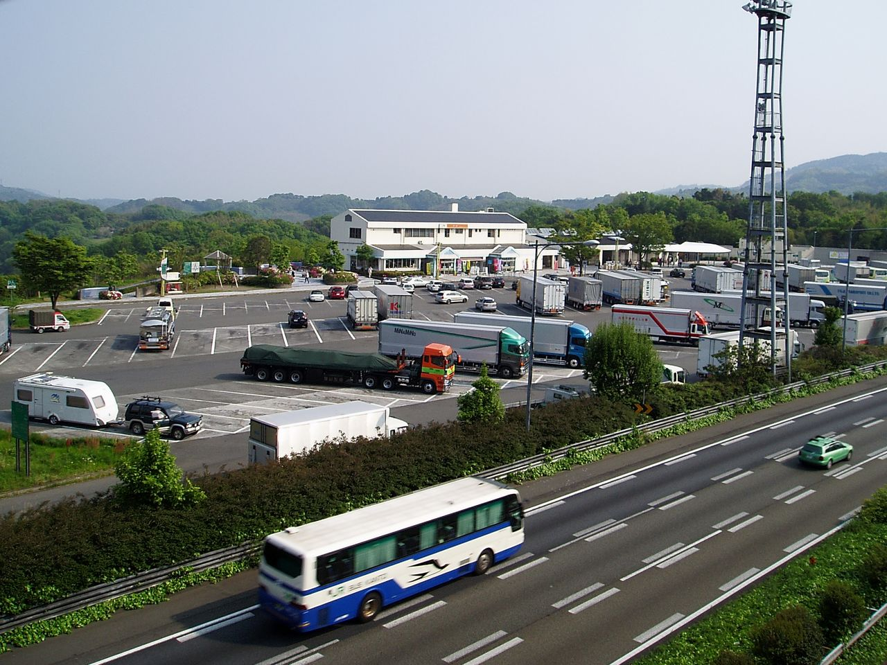 Tomei Expway Nakai Perking Area (for Nagoya)